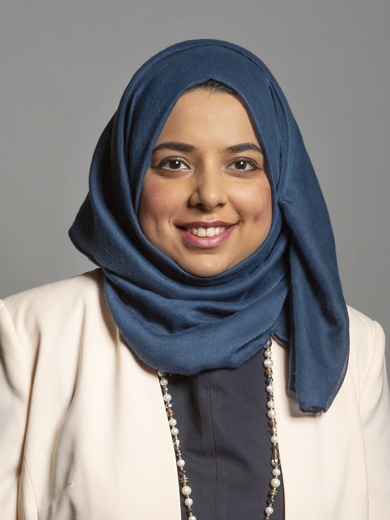 Official portrait of Apsana Begum MP 3×4 portrait of Apsana Begum